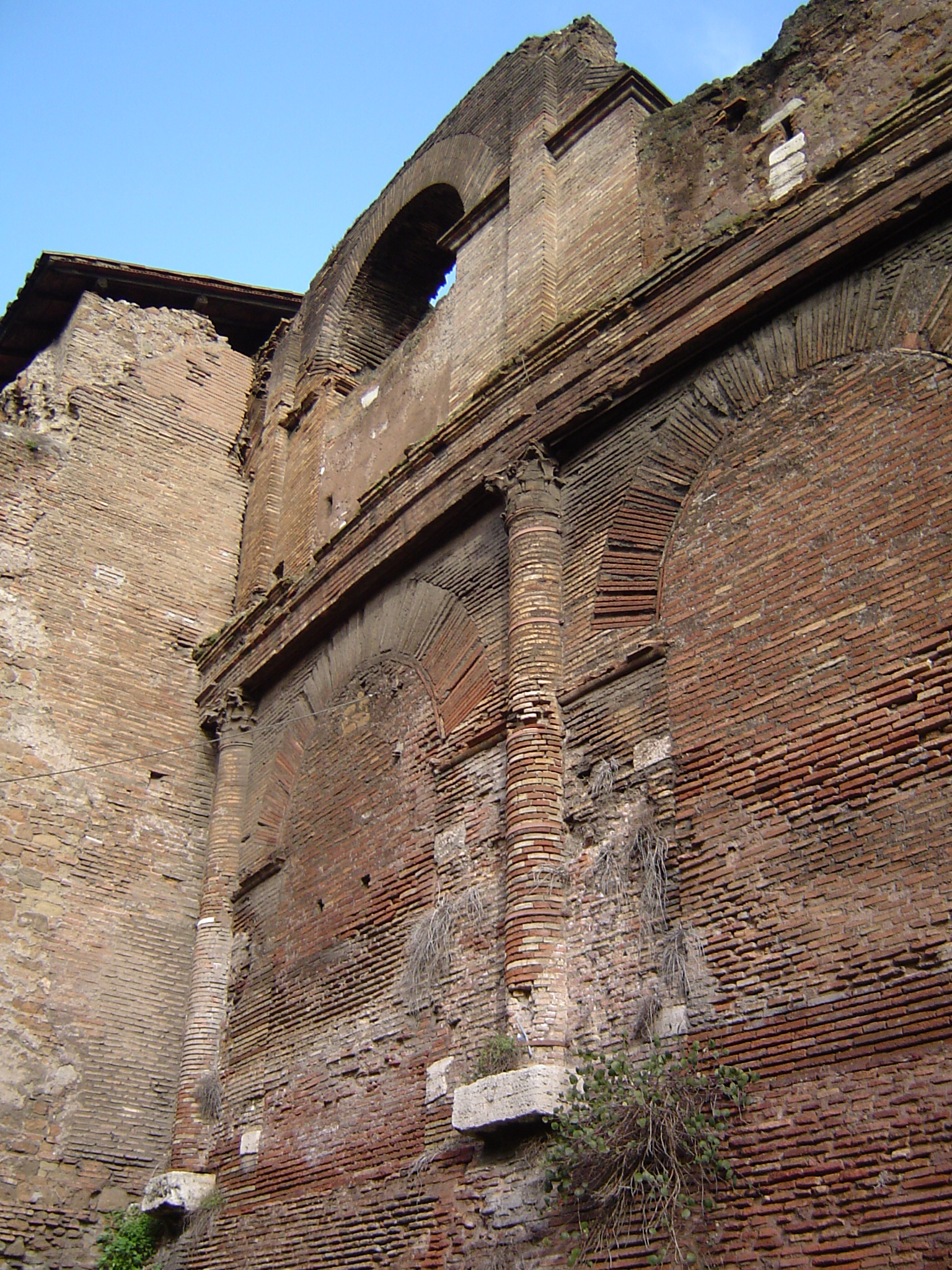 Amphitheatrum Castrense, first and second floor. Rome, Italy